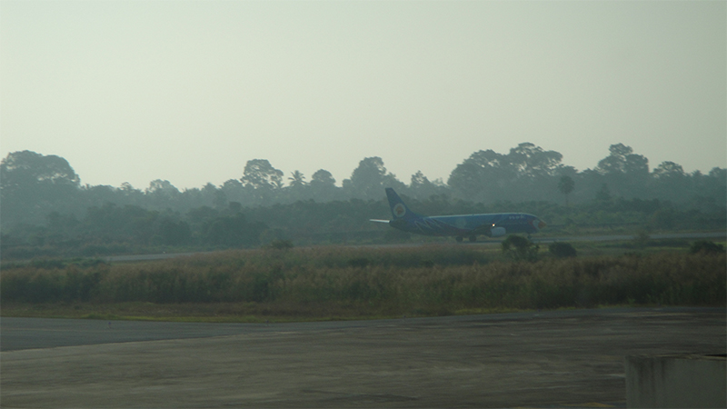 NokAir Take off